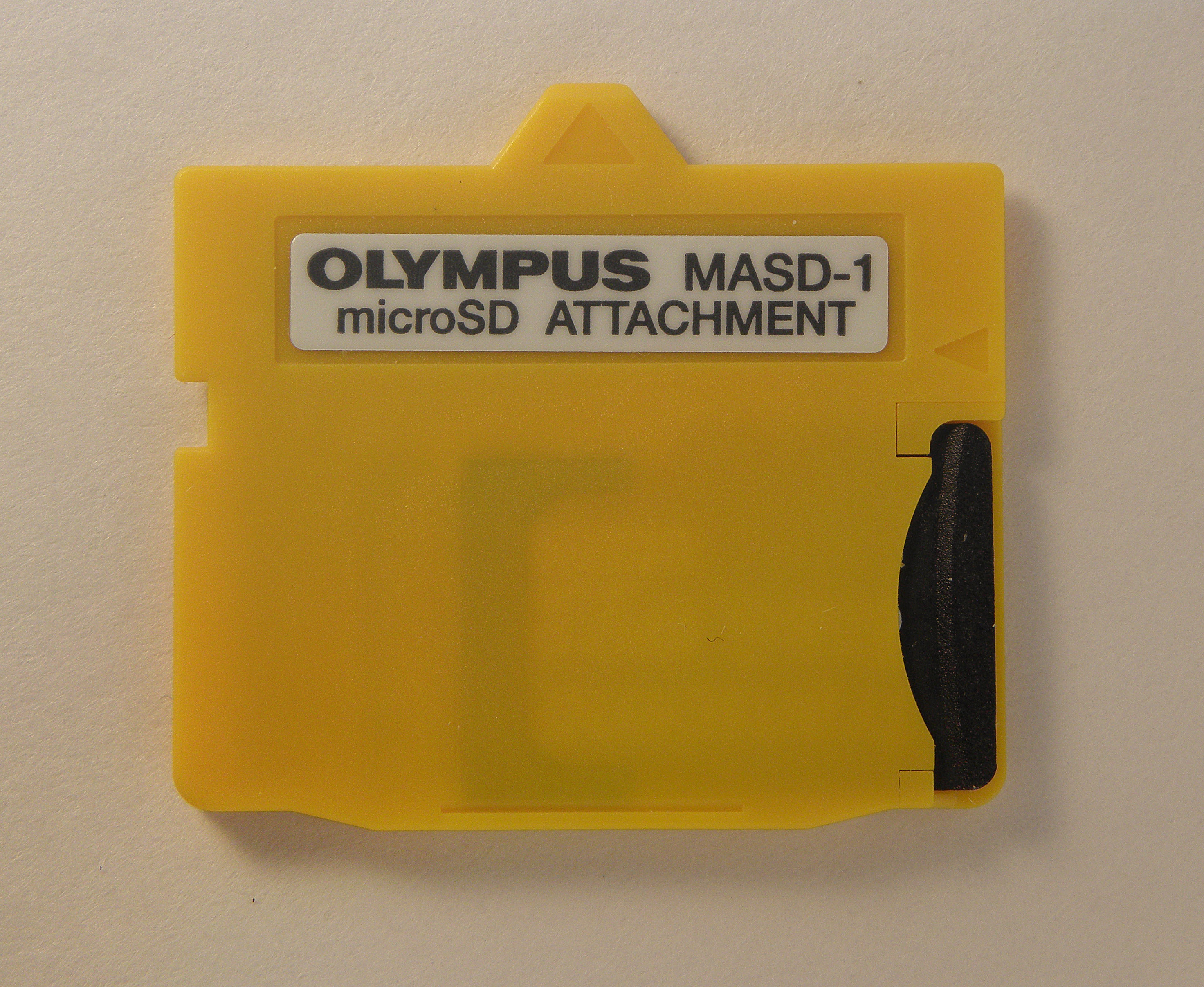 Xd-card adapter with insertetd microSD card.